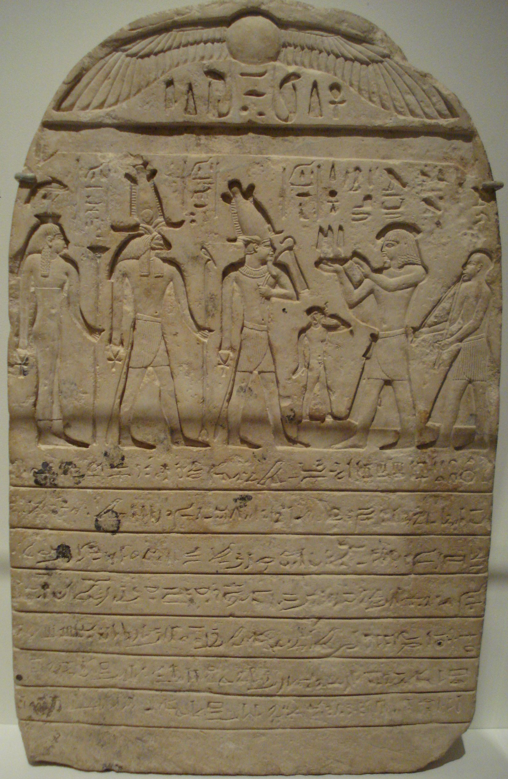 Donation stele with curse inscription. Limestone. Third Intermediate Period of Egypt, Dynasty XXII, probable reign of Shoshenq III, c. 825-773 BC. From Mendes, Egypt. It depicts the High priest of the Ma Harnakht A, prince of Mendes. Inscription celebrates a donation of land to an Egyptian temple, and places a curse on anyone who would misuse or appropriate the land from the temple. (Stated reign length: 837 to 798 BC.) (more refs from Brooklyn Museum)